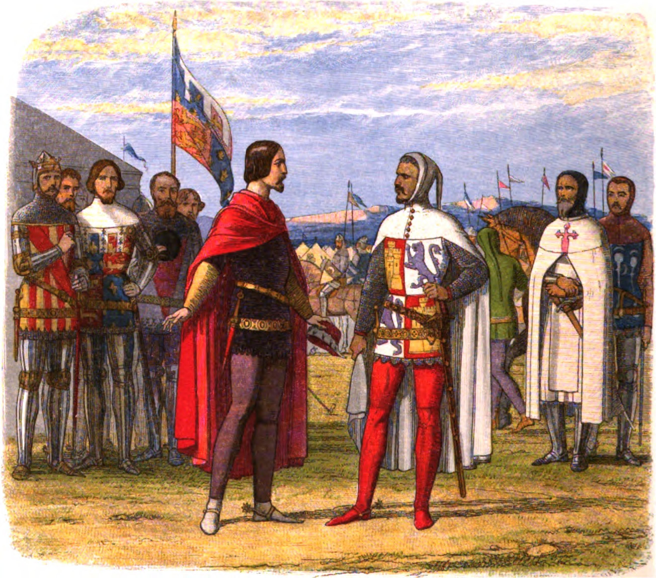 Edward, the Black Prince, extorts an amnesty from Pedro the Cruel. Standing behind Edward are Peter I, king of Majorca; John of Gaunt, 1st Duke of Lancaster; and Sir John Chandos.